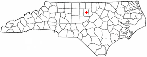 Category:North Carolina Dot Maps